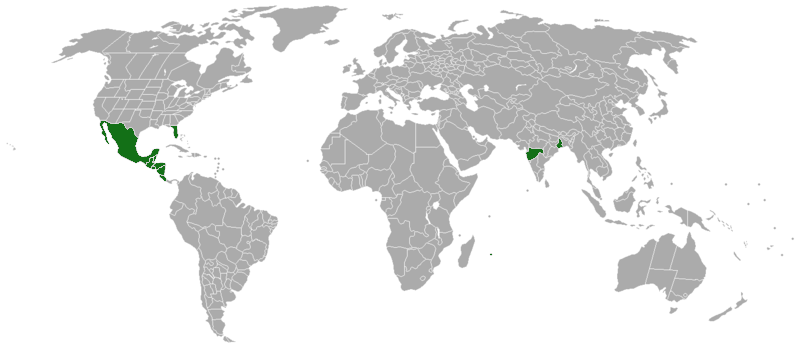 Acacia cornigera range map created with a blank map from the Commons, info from ILDIS LegumeWeb and the GIMP.